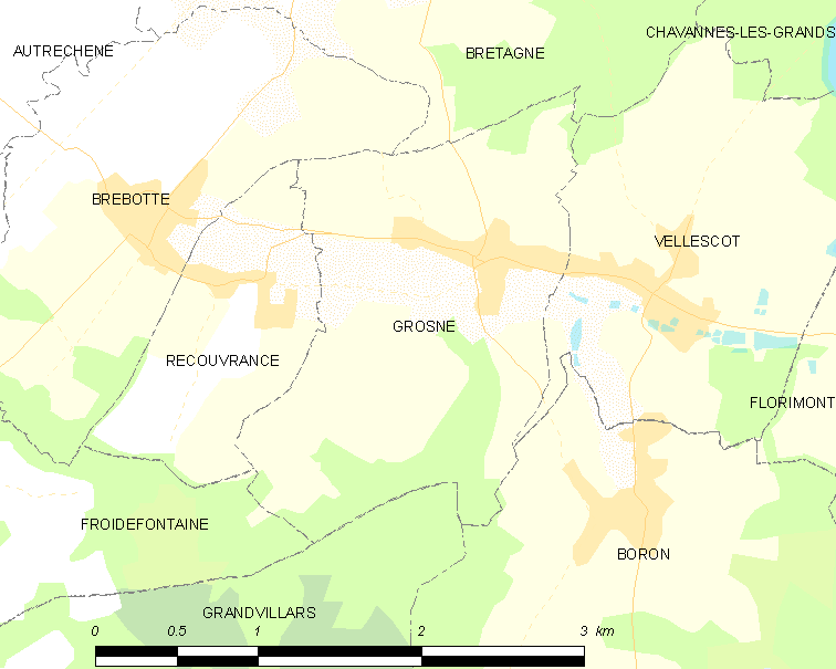 Map of French municipality Grosne